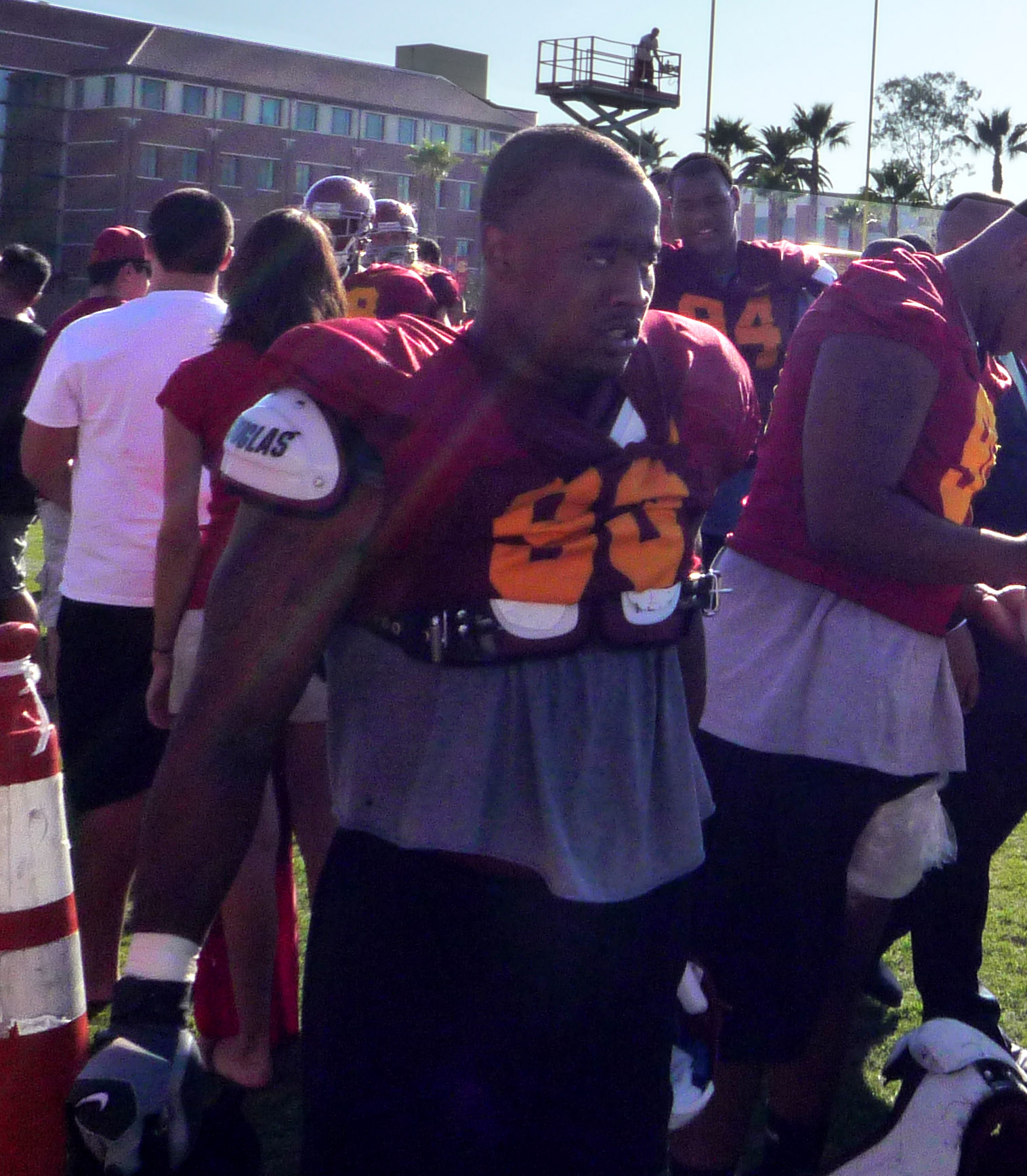 Defensive end Everson Griffen, after a fall practice preceding the 2008 USC Trojans football season.